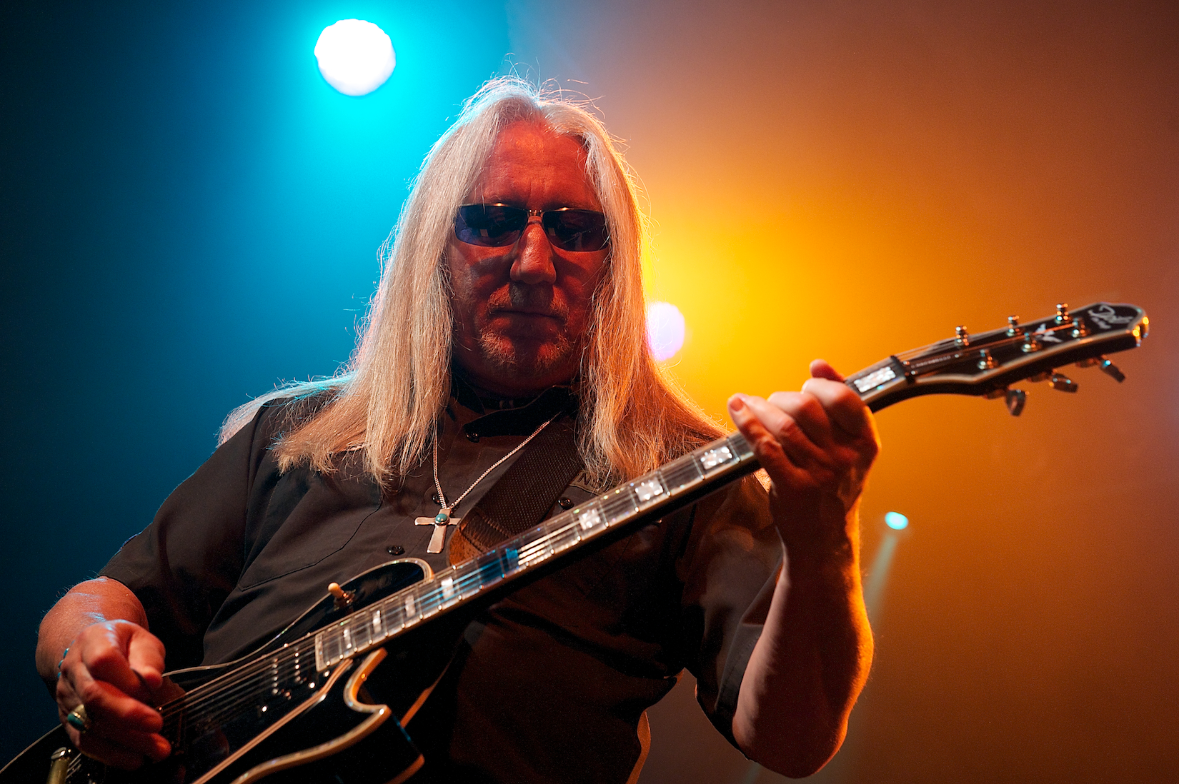 Picture of Mick Box, guitarist of Uriah Heep, 2011